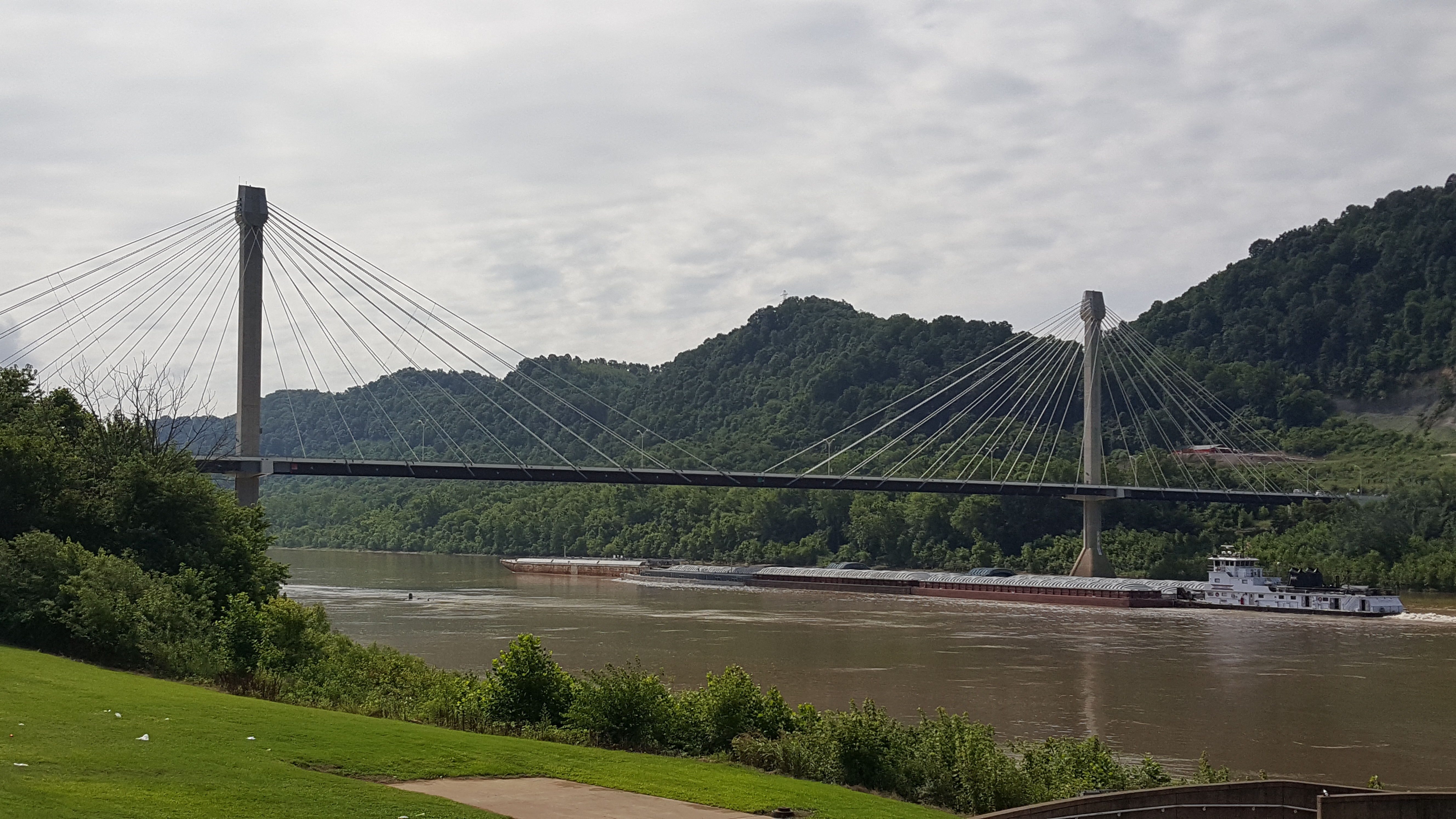 The U.S. Grant Bridge over the Ohio River connecting Portsmouth, Ohio with Greenup, Kentucky